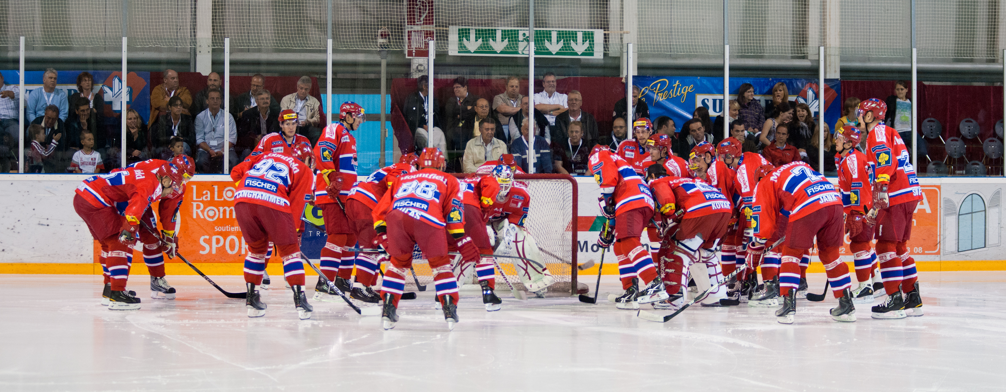 The making of this document was supported by Wikimedia CH. (Submit your project!) For all the files concerned, please see the category Supported by Wikimedia CH. Lausanne Hockey Club vs. HC Česke Budějovice, 27.08.2010